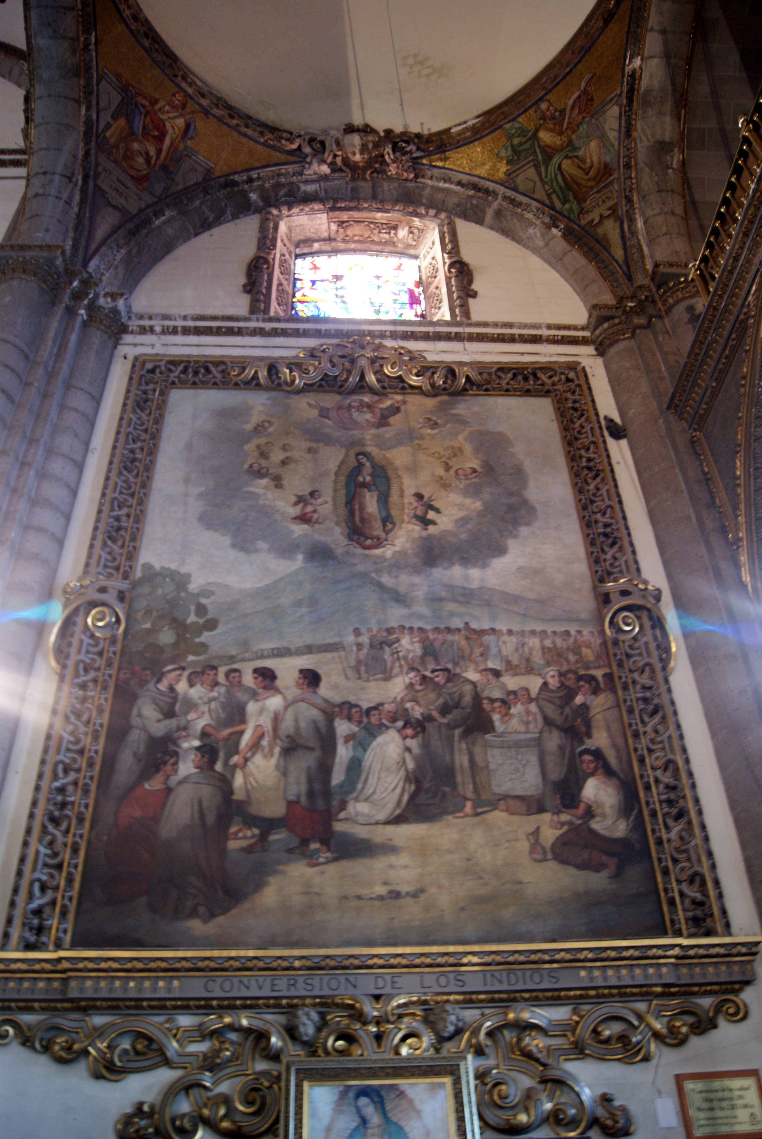 Basilica of Our Lady of Guadalupe